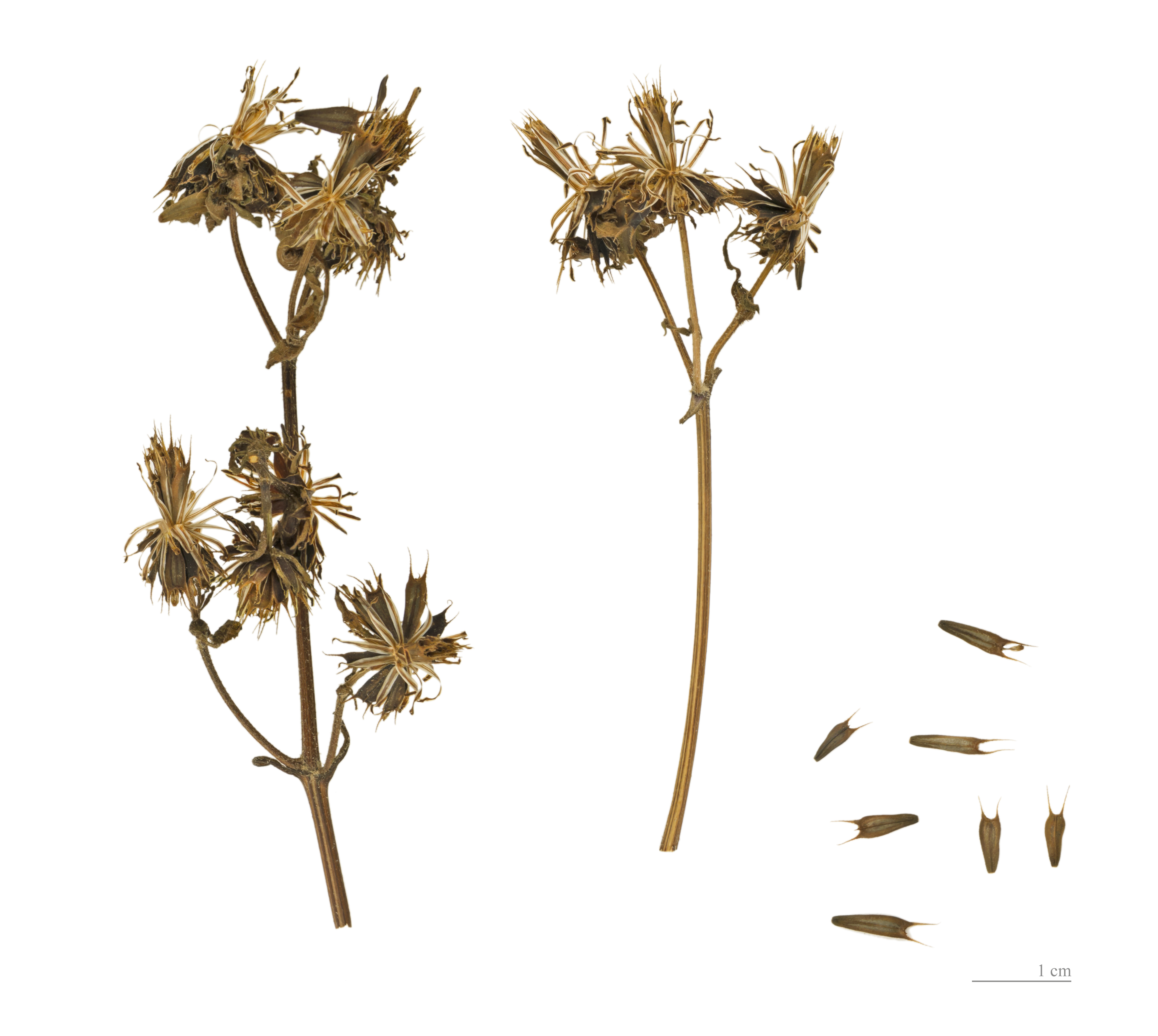 Three-lobe Beggarticks, Infrutescence and Achenes.